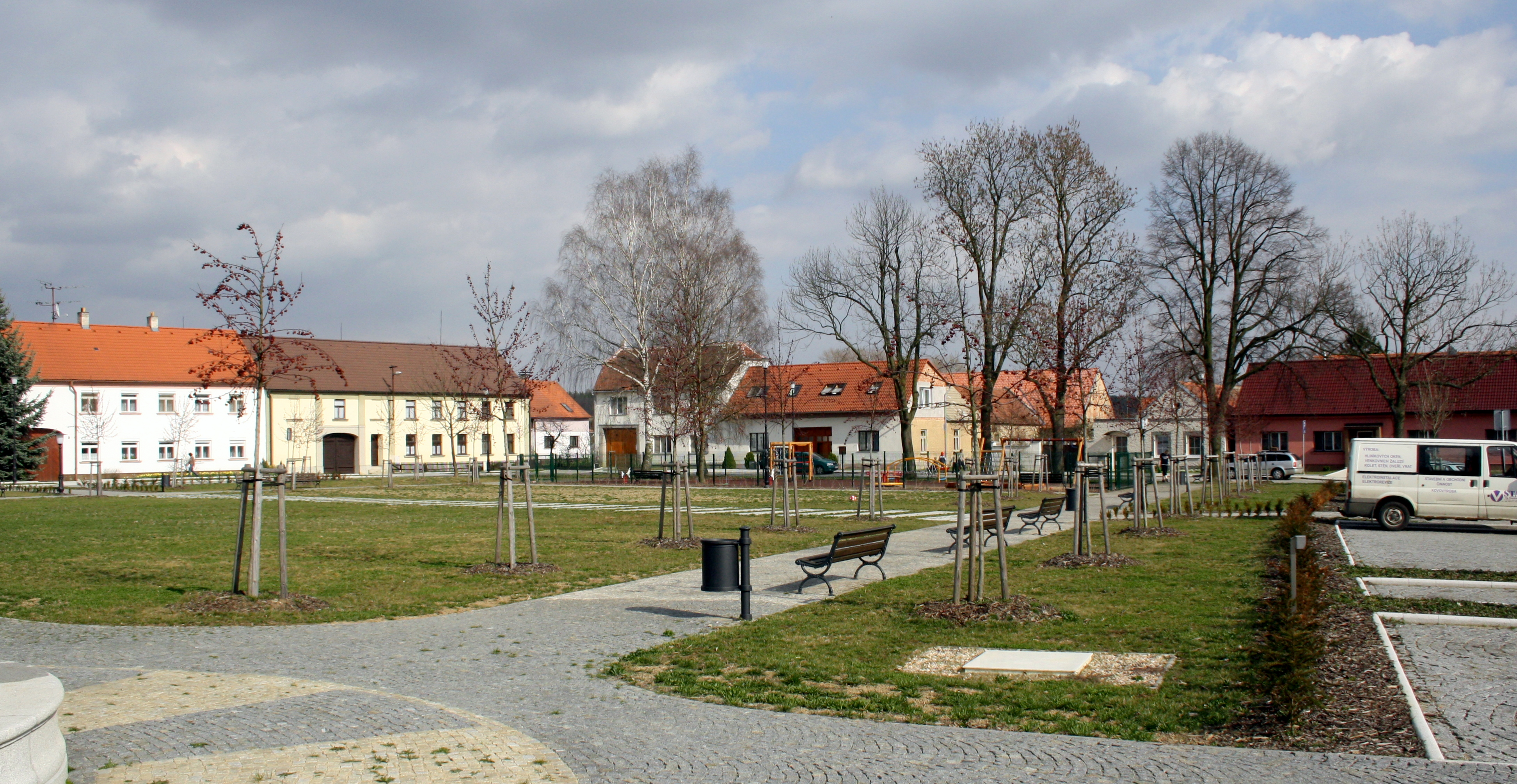 Alley at square in Dalešice, Třebíč District.